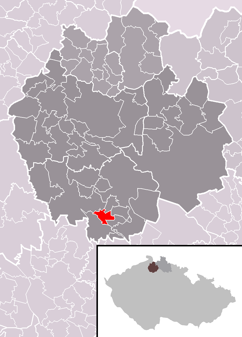 Location of Ždírec municipality within Česká Lípa District and administrative area of Česká Lípa as a Municipality with Extended Competence.